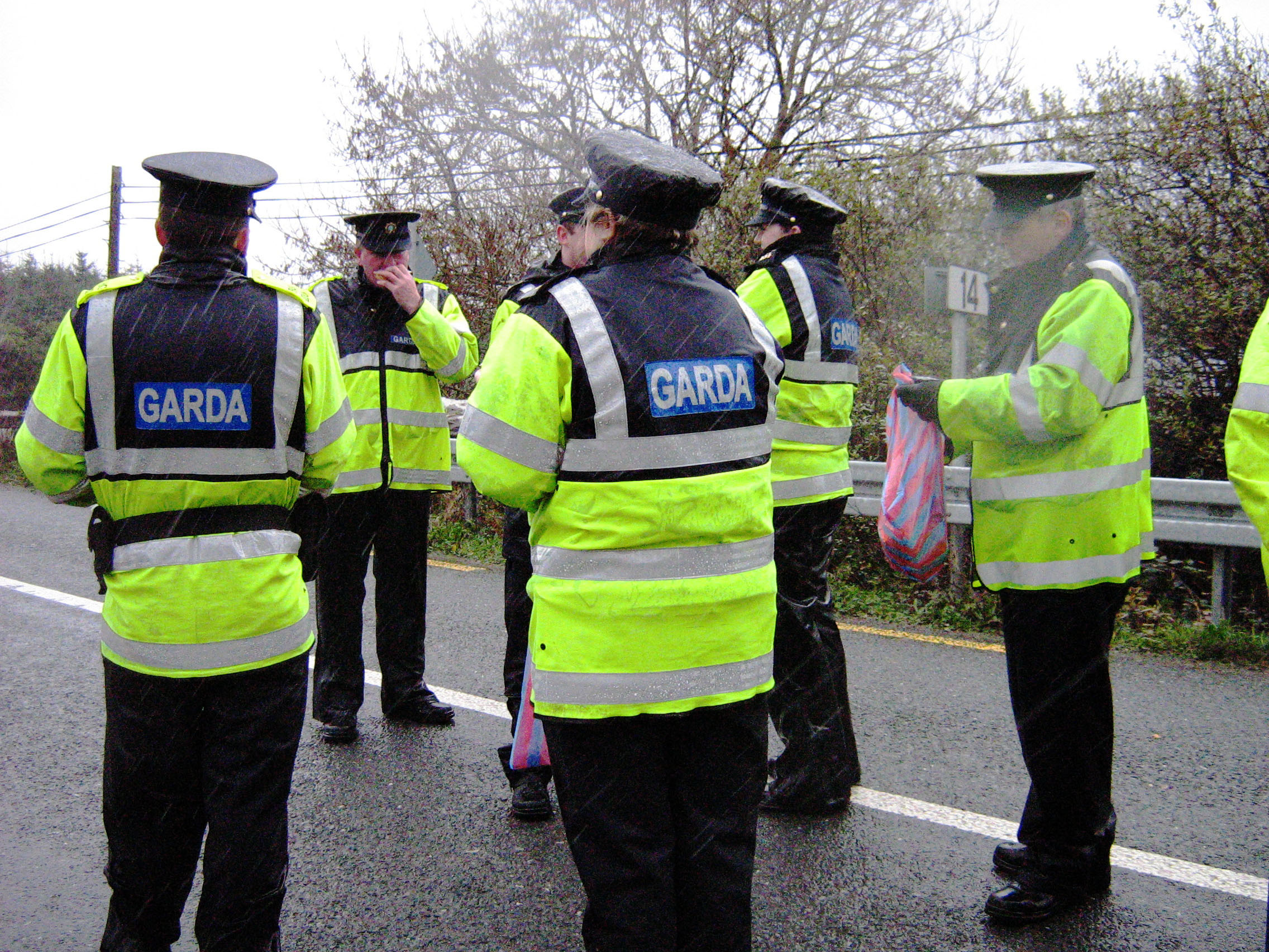 members of the GARDA SIOCHANA, the police force of Ireland, have lunch while guarding the road into the Shell refinery site at Bellanaboy, Erris County Mayo